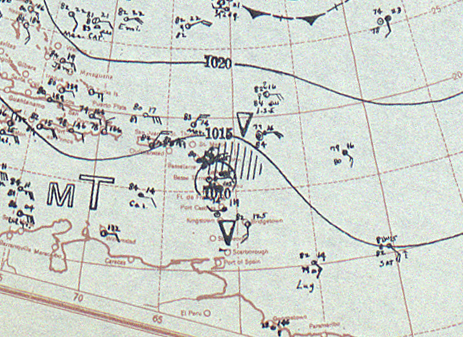 Surface weather analysis of Hurricane Five over the Leeward Islands on July 25, 1933